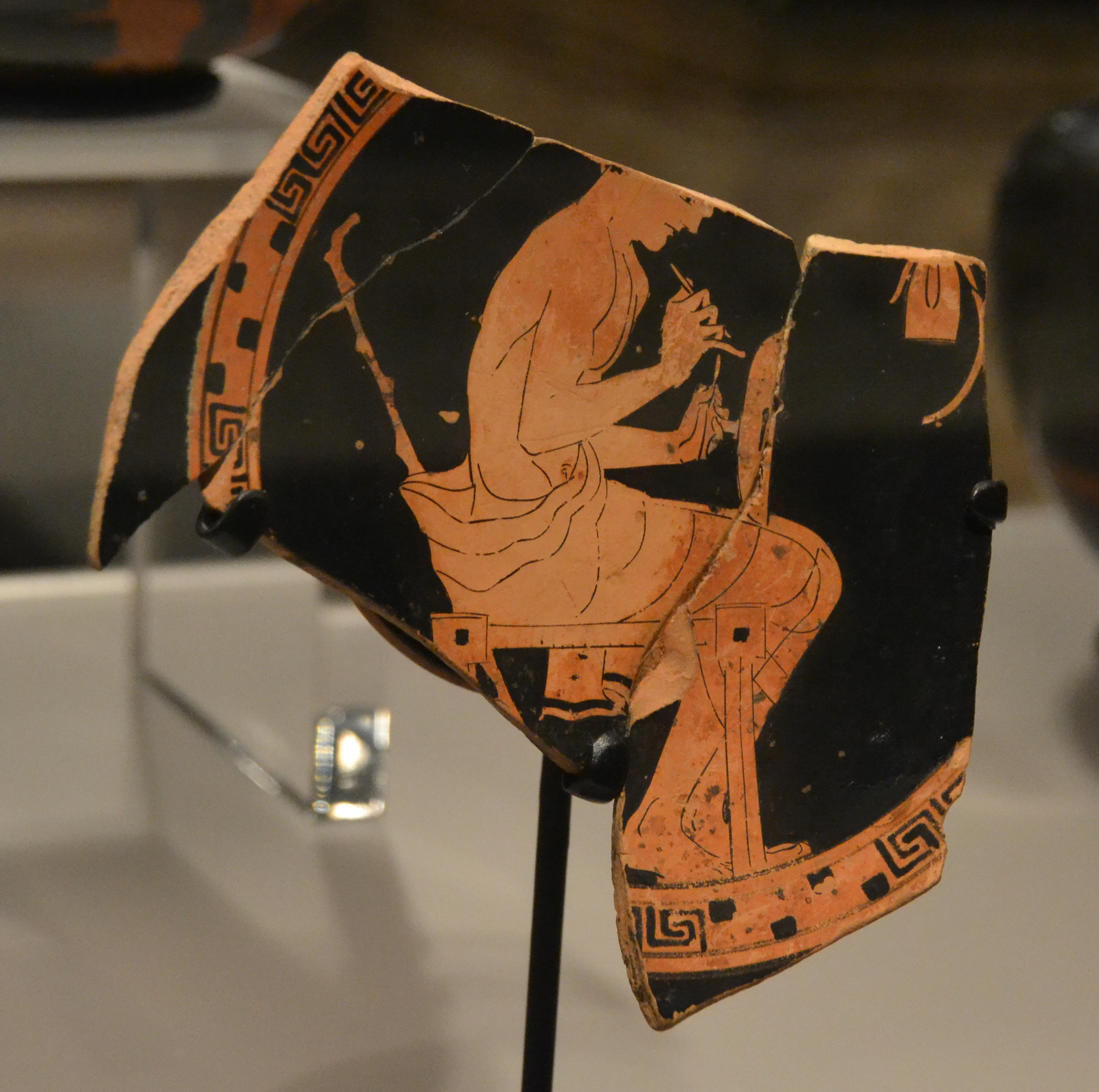 Fragmentary attic red-figure kylix depicting a vase painter decorating a kylix by the Antiphon painter; about 480 BC; Henry Lillie Pierce Found, 1901, Museum of Fine Arts Boston 01.8073